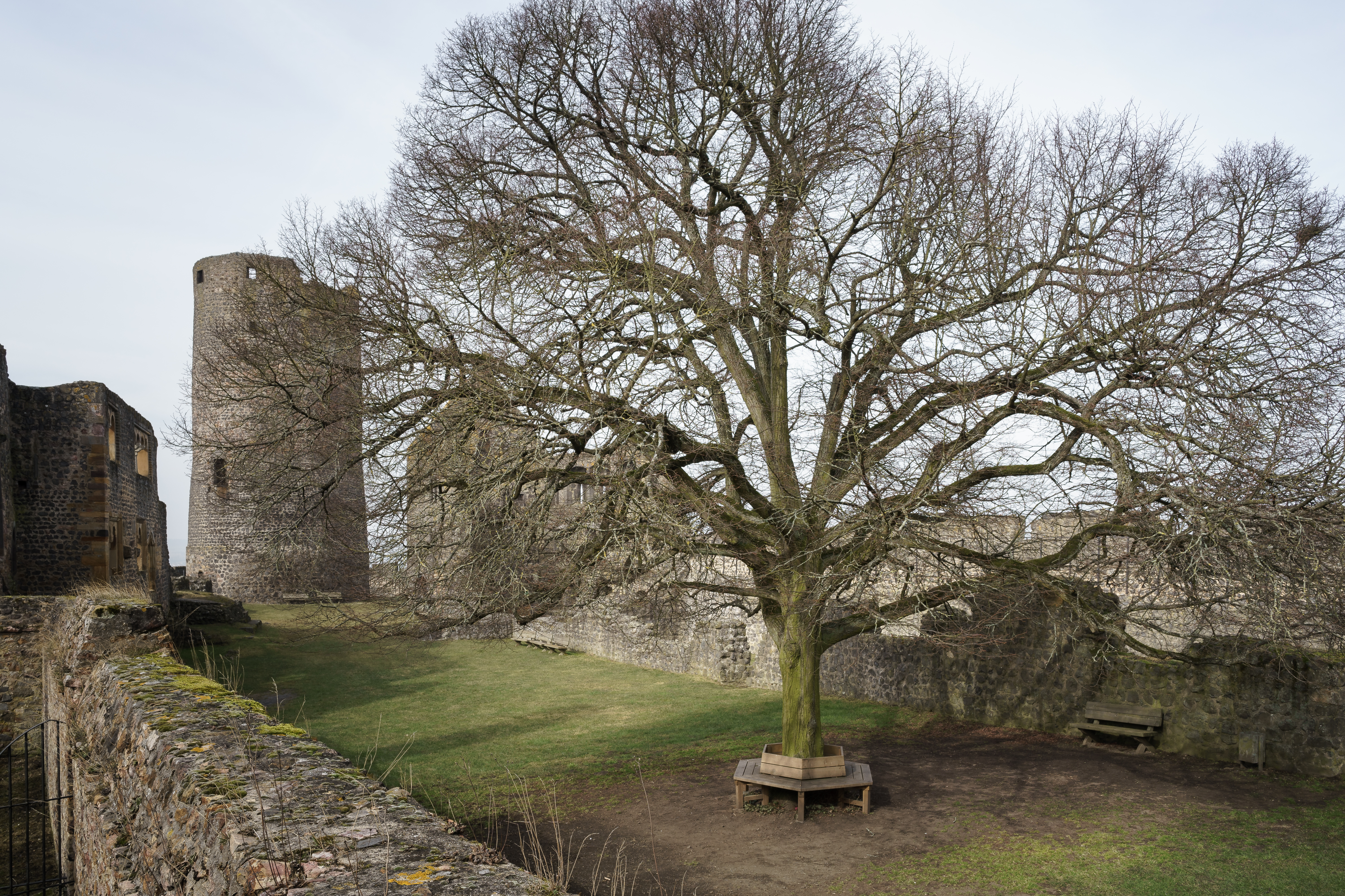 Münzenberg Castle - old Tilia and western bergfried